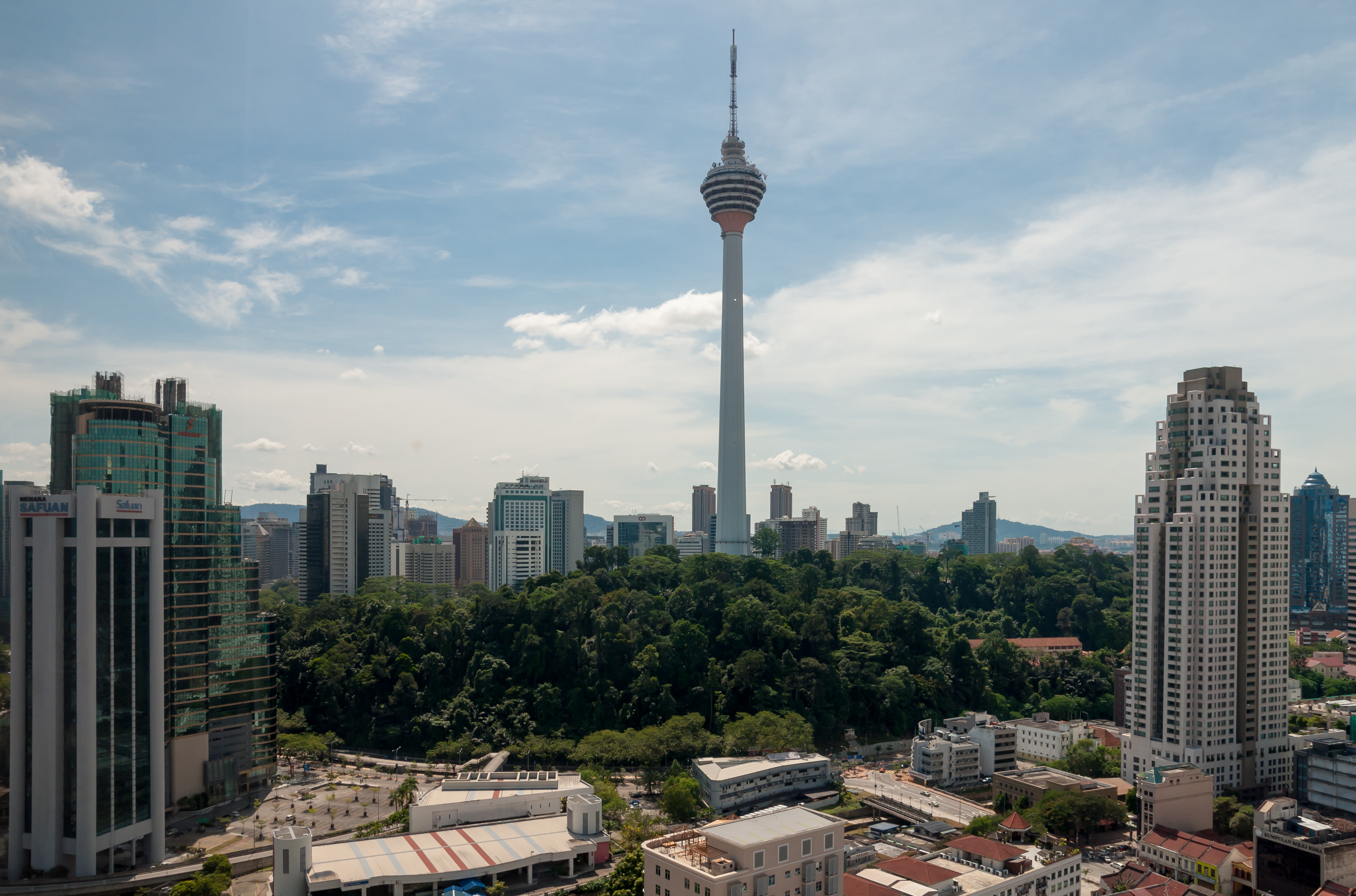 Kuala Lumpur, Malaysia: Kuala Lumpur TV Tower / Menara Kuala Lumpur seen from Imperial Sheraton Hotel